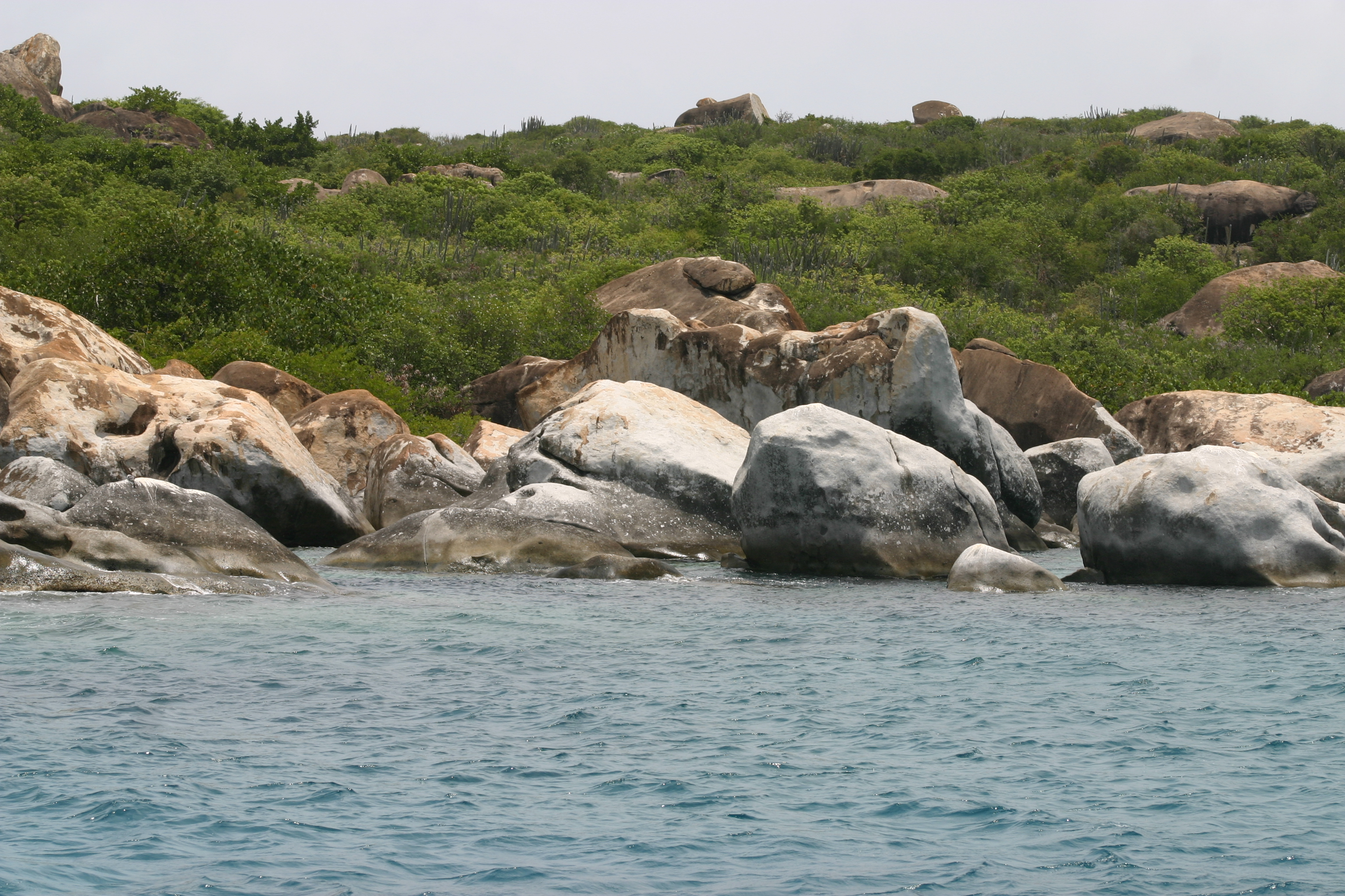 Beneath the slanted boulder in the center of the image is an air-filled underwater cave.